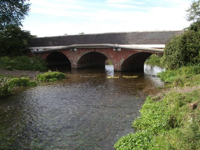 Patrick Bridge. This bridge on the Meriden Road crosses the River Blythe. Seen from the south.